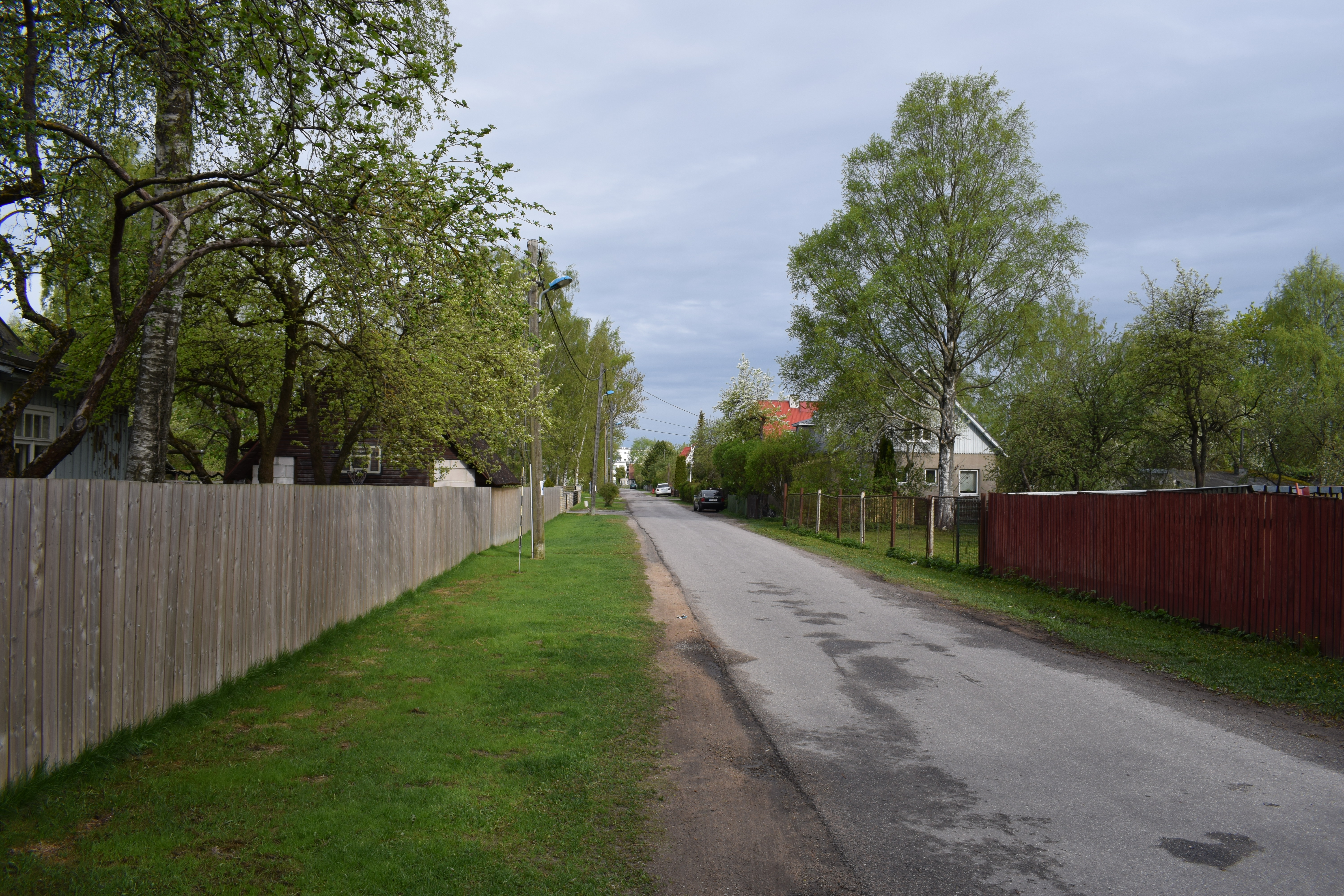 Luige tänav